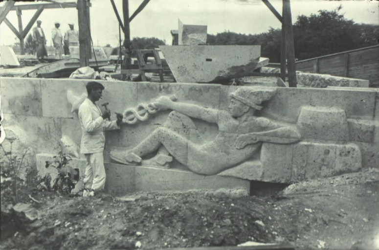 S'fartsmonumentet under construction at Langelinie in Copenhagen, Denmark